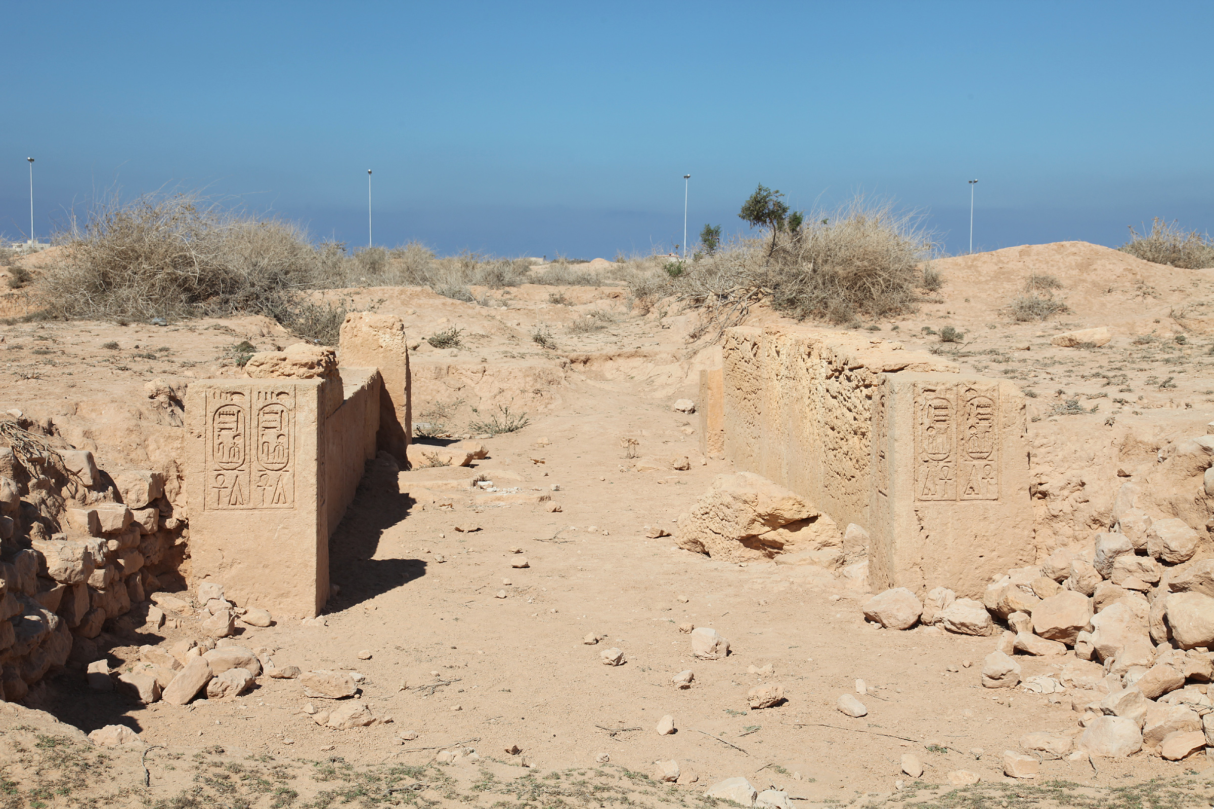 South side of Gate B in the northern wall, view to the north, fortress at Zawiyet Umm el-Rakham, Egypt